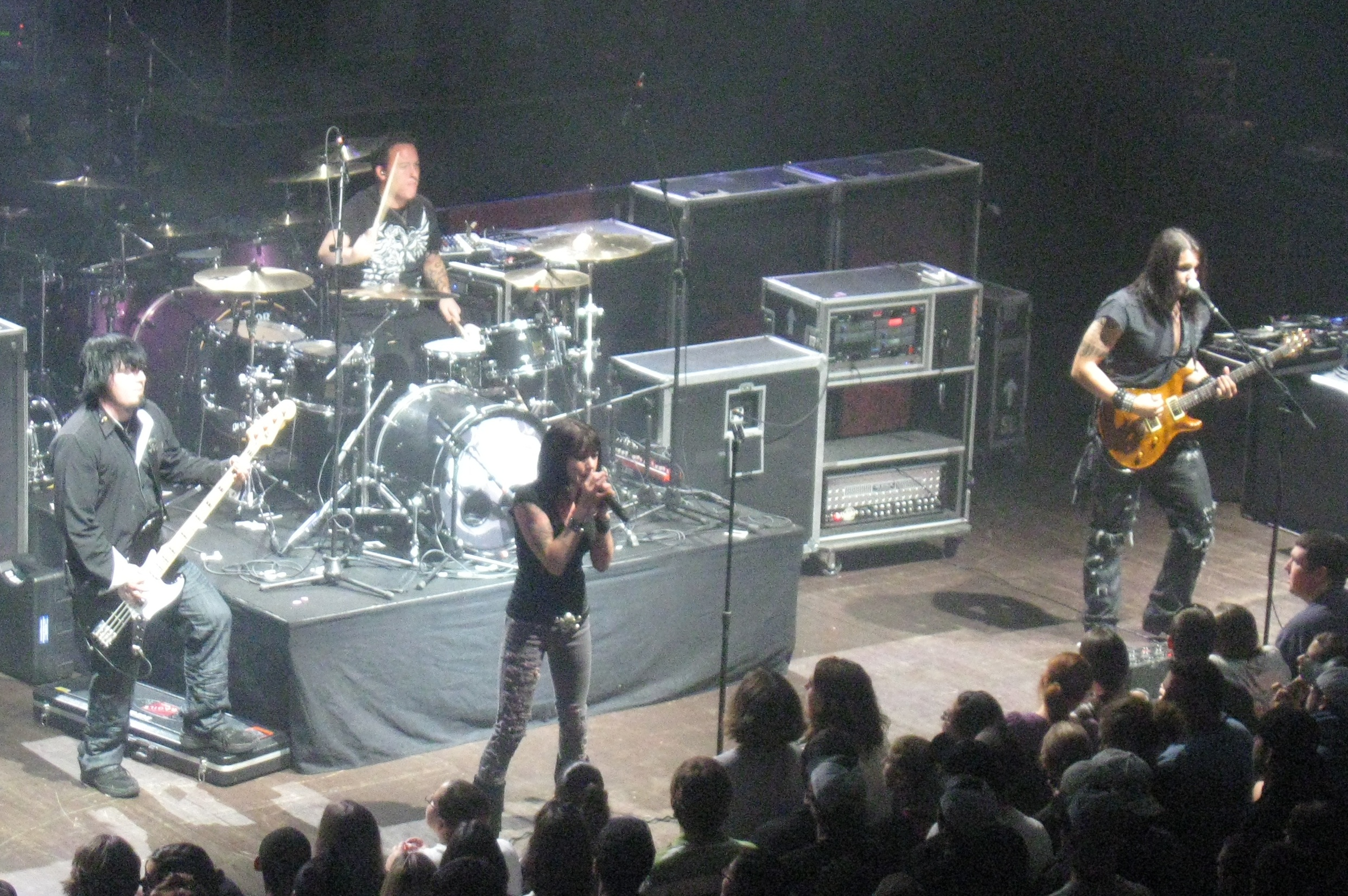 The Letter Black in concert! Cropped from original image.